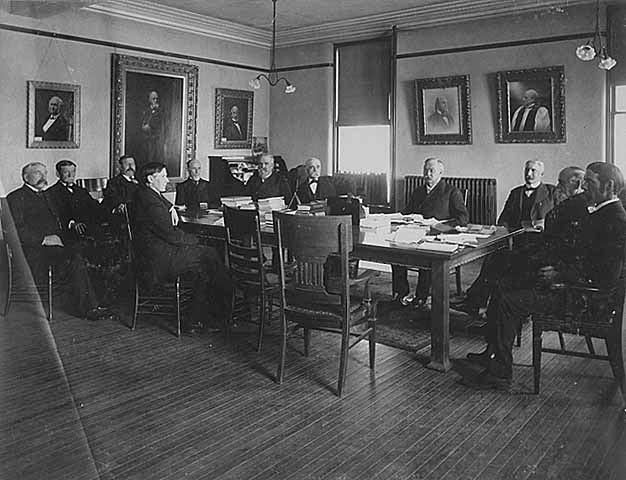 Meeting of the Board of Regents in President Northrop's office, University of Minnesota. John Sargent Pillsbury's portrait hangs on the walls on the left. John Sargent Pillsbury himself sits second from the right. Photographer: Edward Augustus Bromley. Photograph Collection 1//1889 Location no. FM6.82 p1 Negative no. 95-B